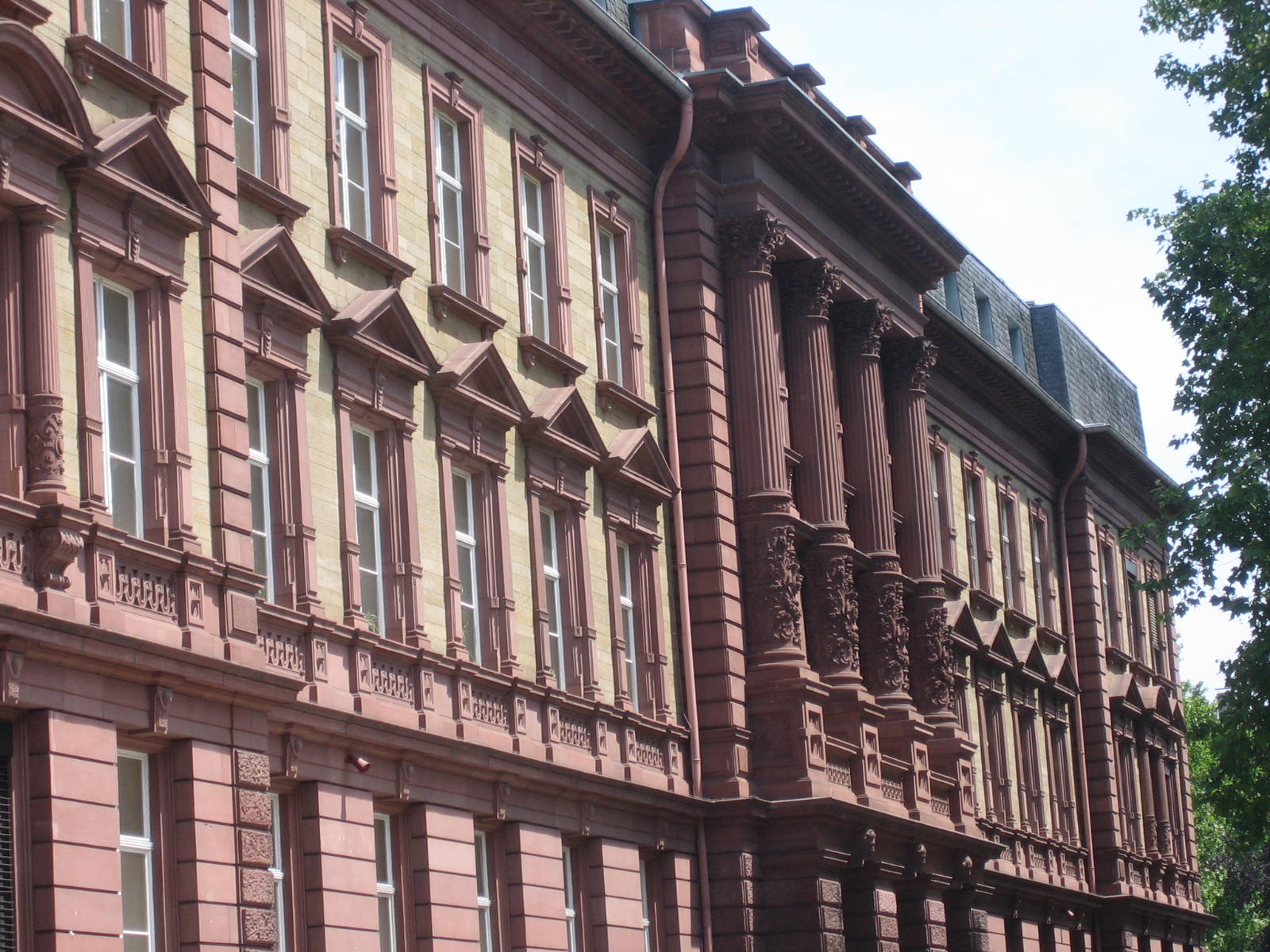 Rabanus-Maurus-Gymnasium (from the 117er memorial court)